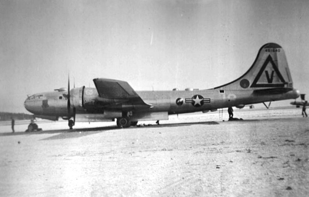 301st Bombardment Wing -- Boeing B-29A-40-BN Superfortress 44-61640. Taken at Smokey Hill AFB, Kansas. Note Triangle-V SAC Tail Code, Eighth Air Force. Aircraft later converted to WB-29A. Assigned to 54th Strategic Reconnaissance Squadron (Medium, Weather) lost Feb 26, 1952.